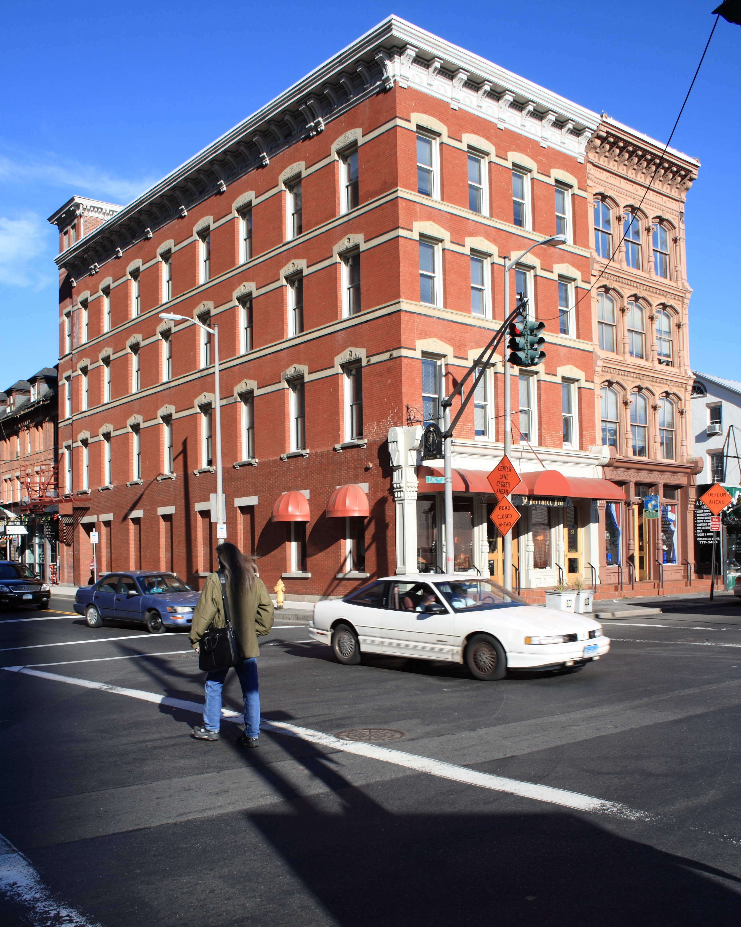 The Imperial Granum-Joseph Parker Buildings, 47 and 49-51 Elm St., a Registered Historic Place in New Haven, Connecticut.